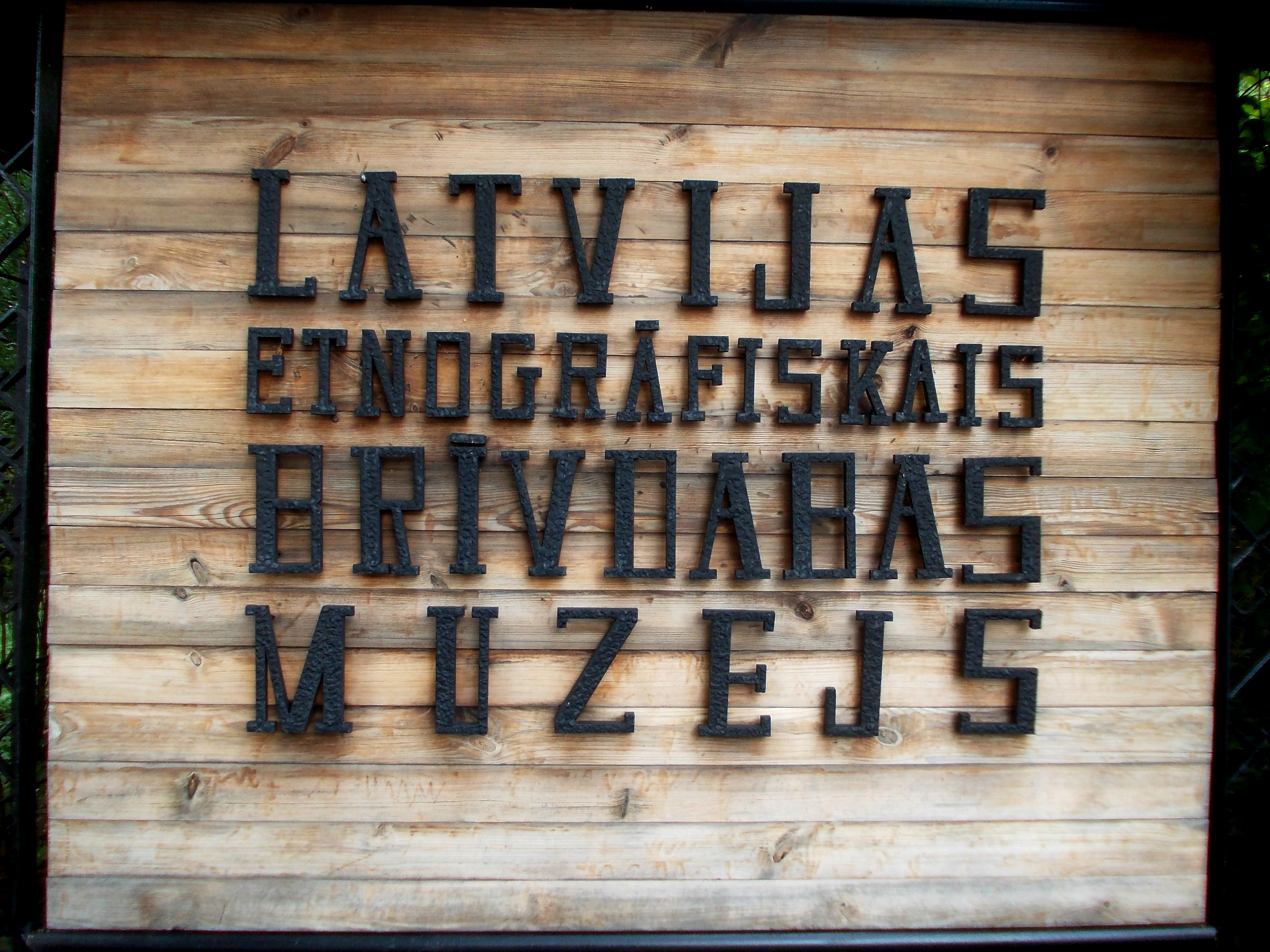 Latvian Ethnographic Open Air Museum, signboard